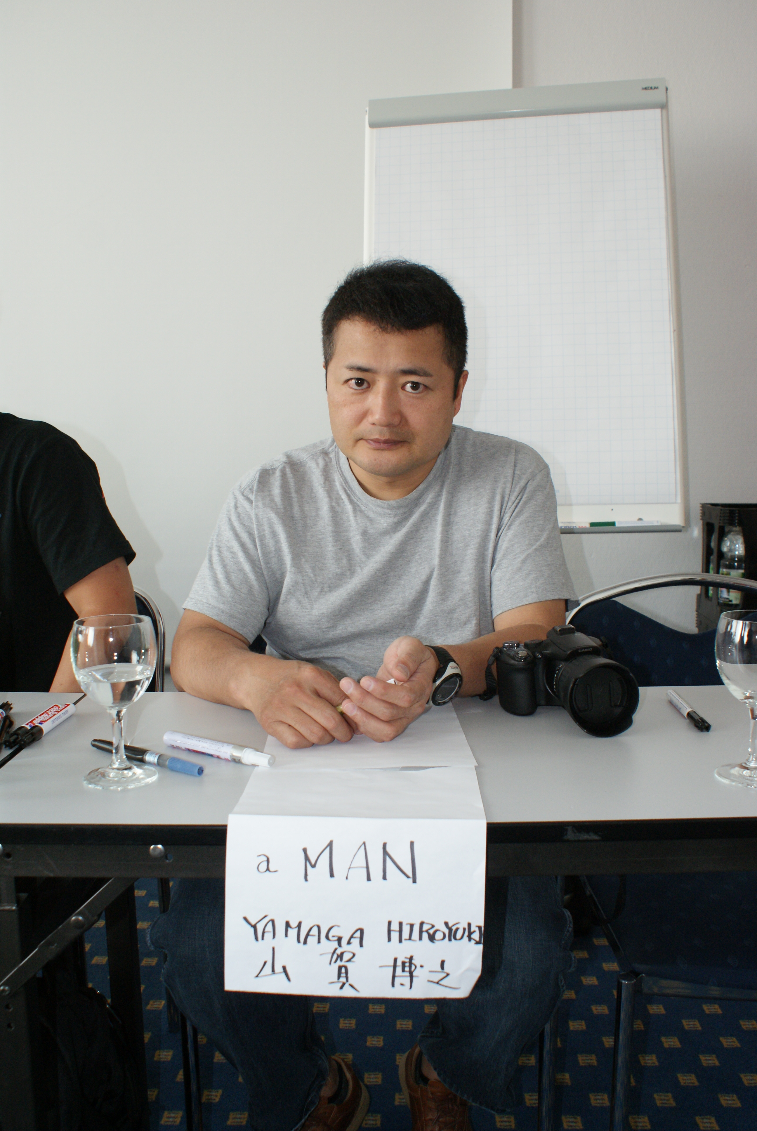 Picture made at Connichi 2008. Person in picture gave permission through translator (de/ja)